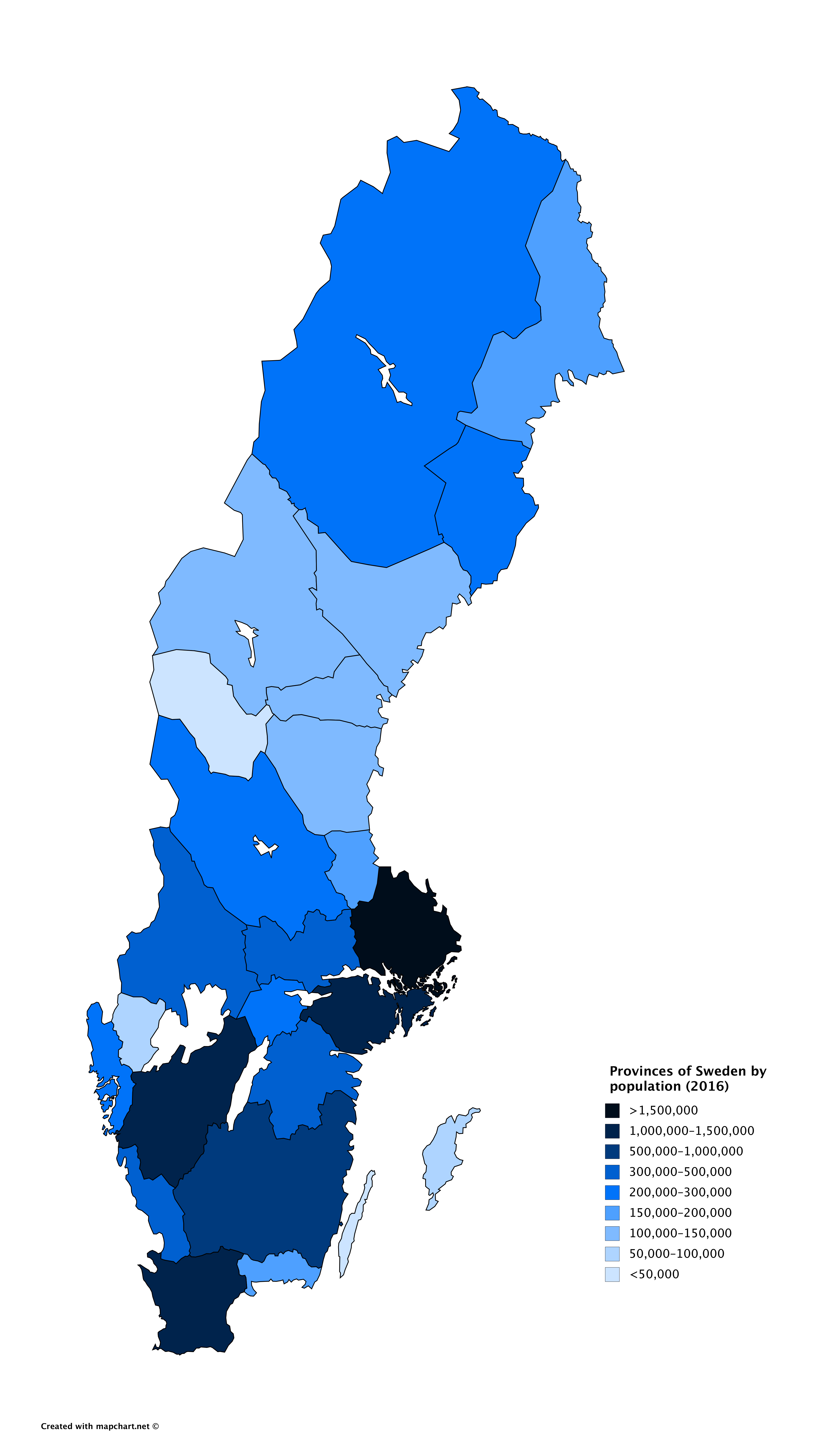 A choropleth map showing the population of Swedish provinces in 2016, based on data from Statistics Sweden.